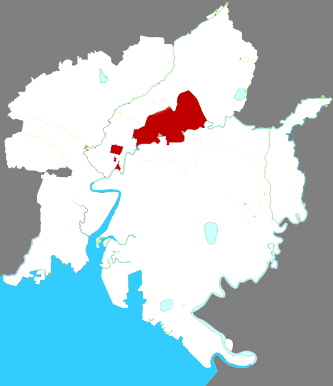 Location of Shuangtaizi district in Panjin City, China